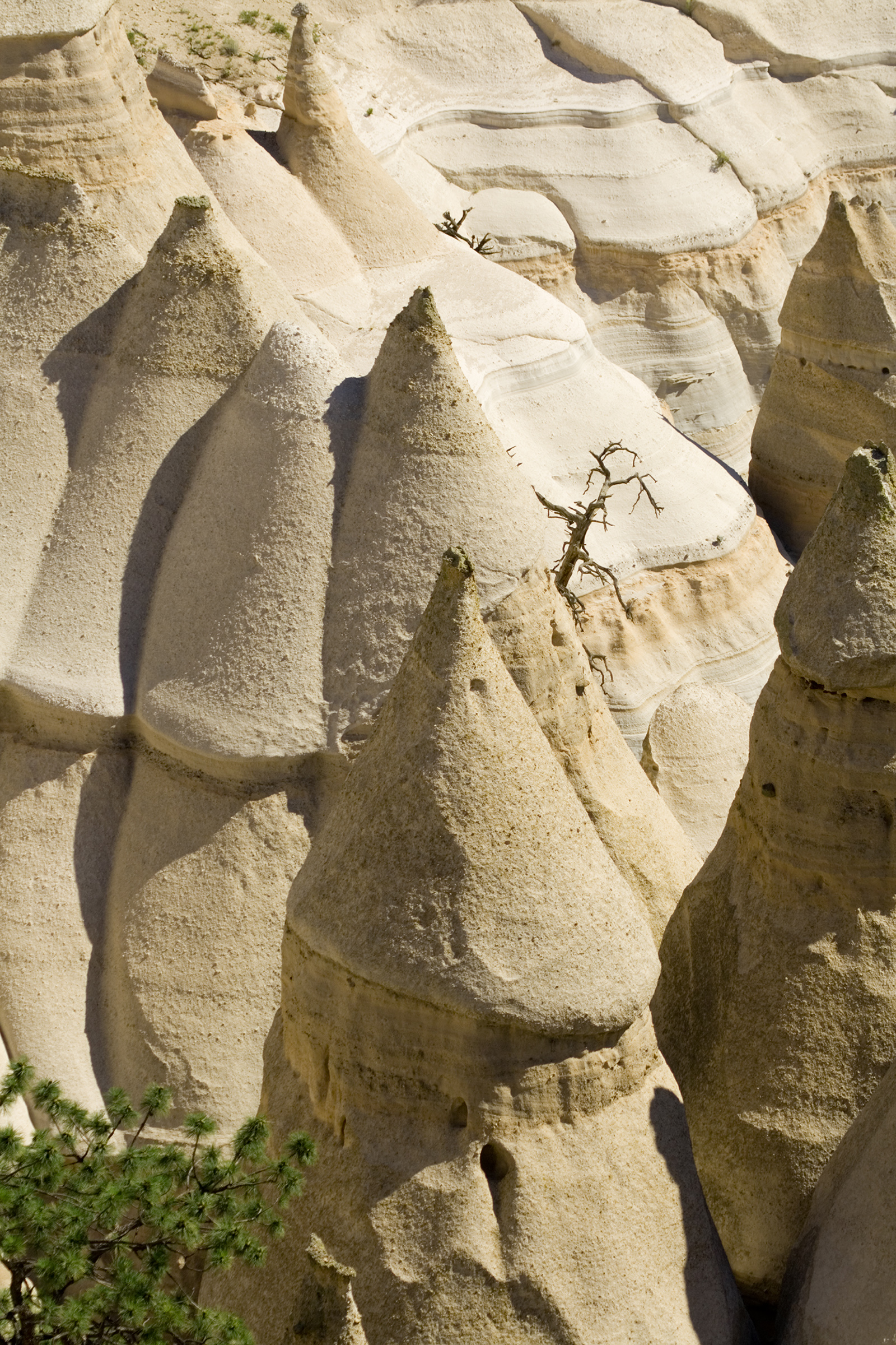 Kasha-Katuwe Tent Rocks National Monument, New Mexico, United States of America.